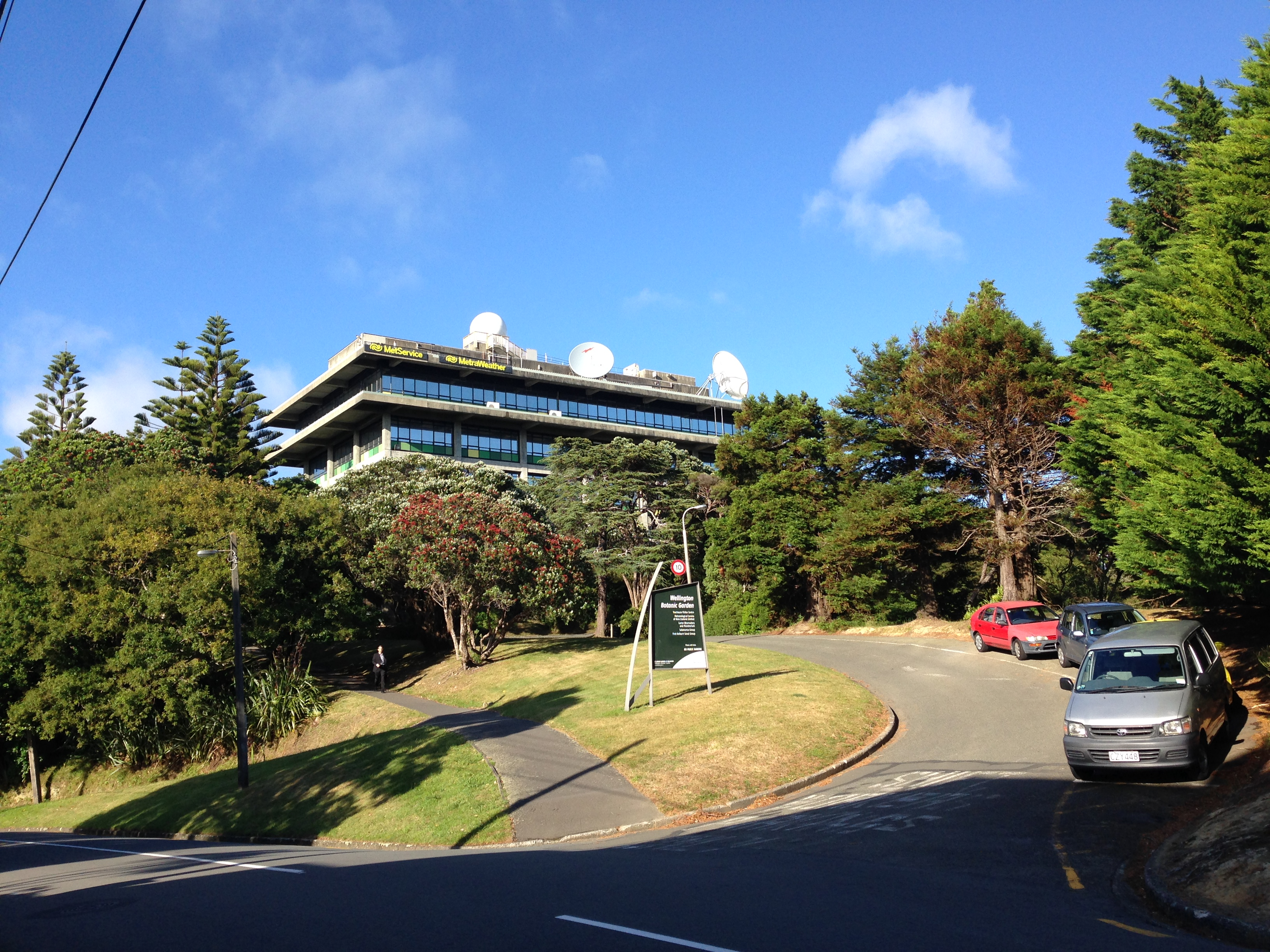 The head office of Meteorological Service of New Zealand Ltd, and of its international subsidiary MetraWeather, is located in Wellington Botanic Garden.